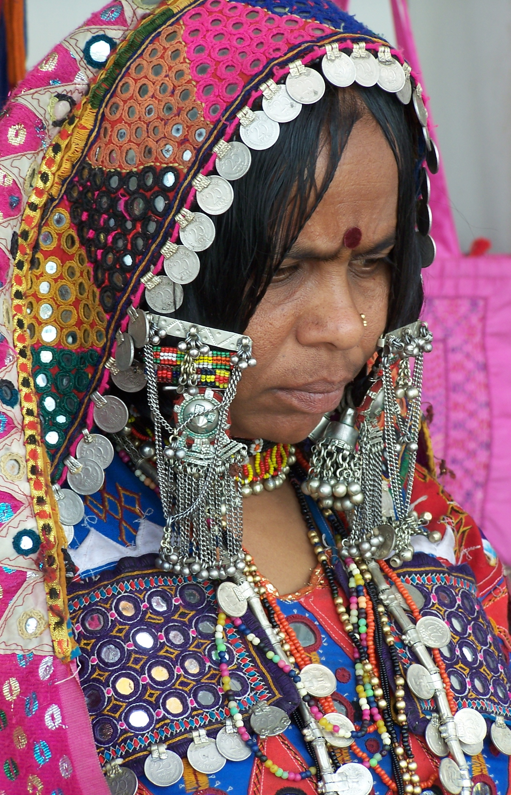 Rajesh Dangi, Bangalore, Jan 2006, "Close Up of a Lambani Women"